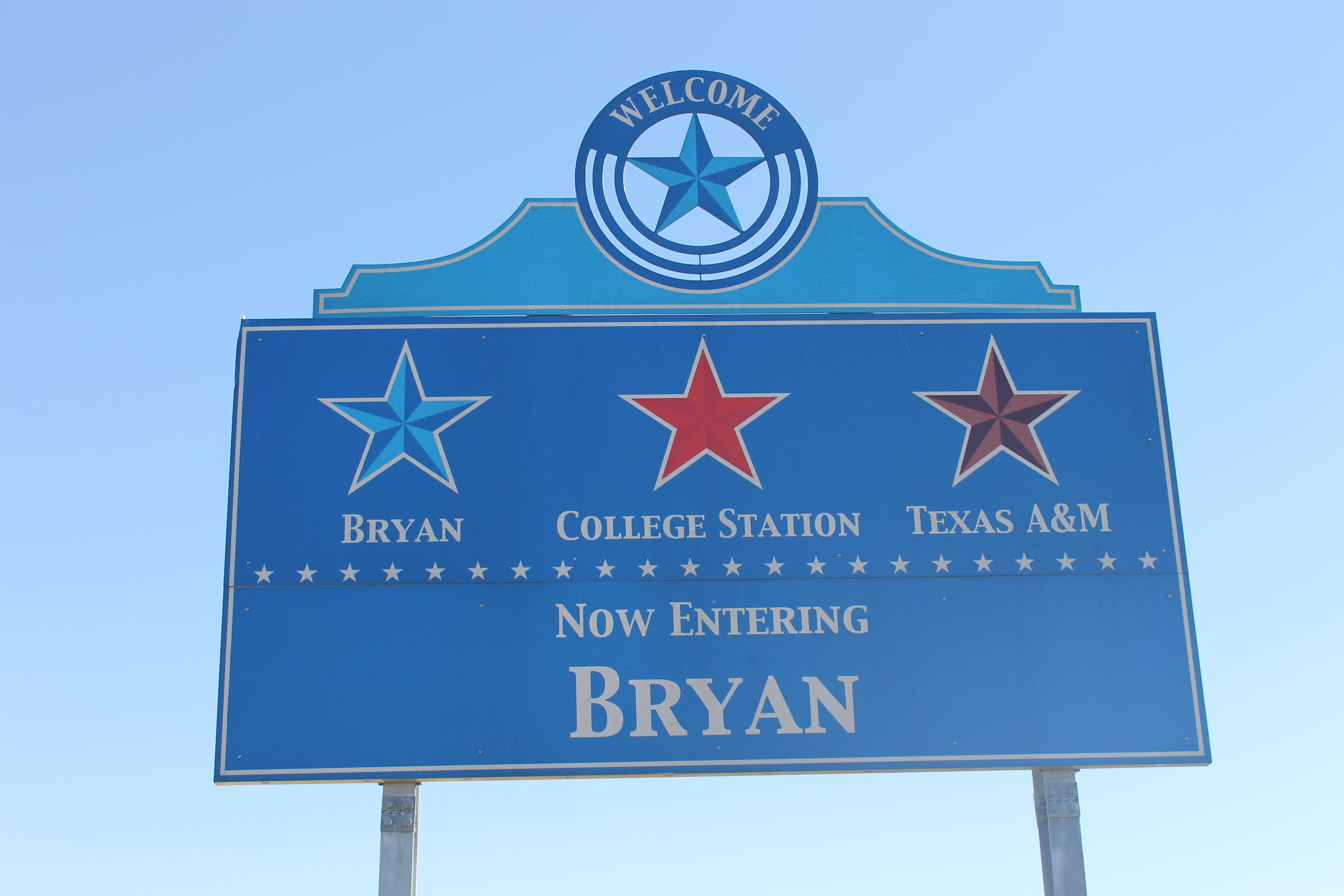 Welcome sign in Bryan, TX